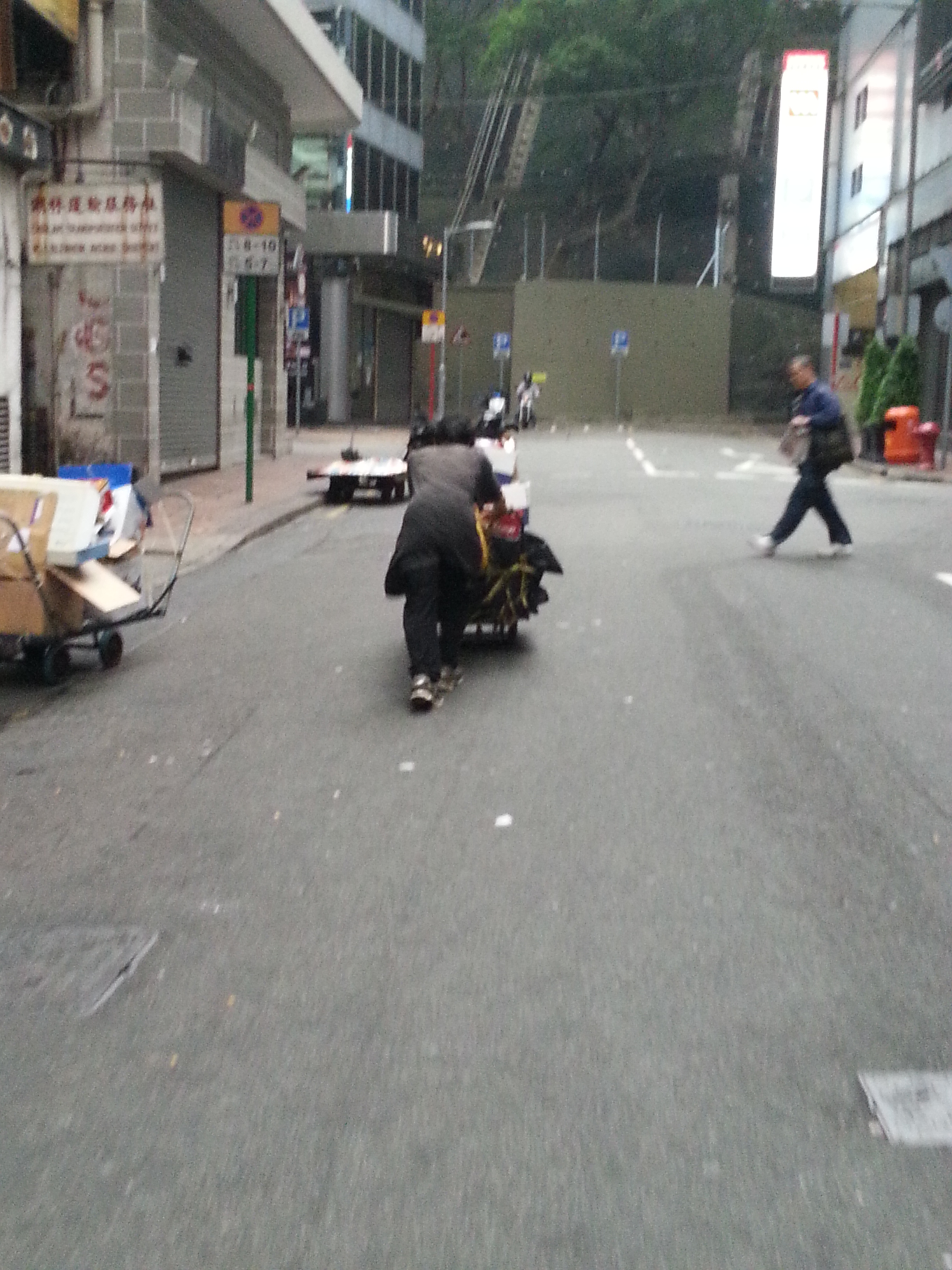 early morning @ hong kong